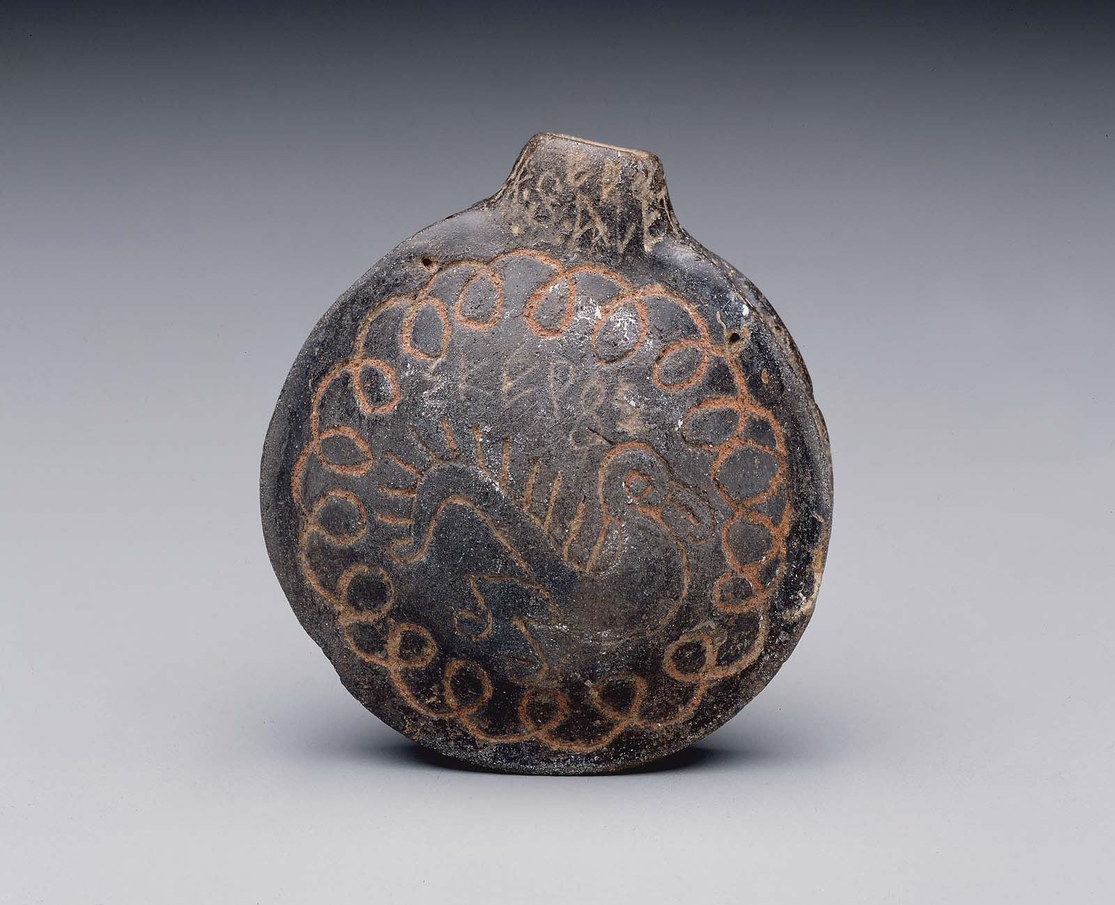 Fiaschetta pendaglio amuleto VII sec (A).c con iscrizione, necropoli di Poggio Sommavilla tomba III, lato B